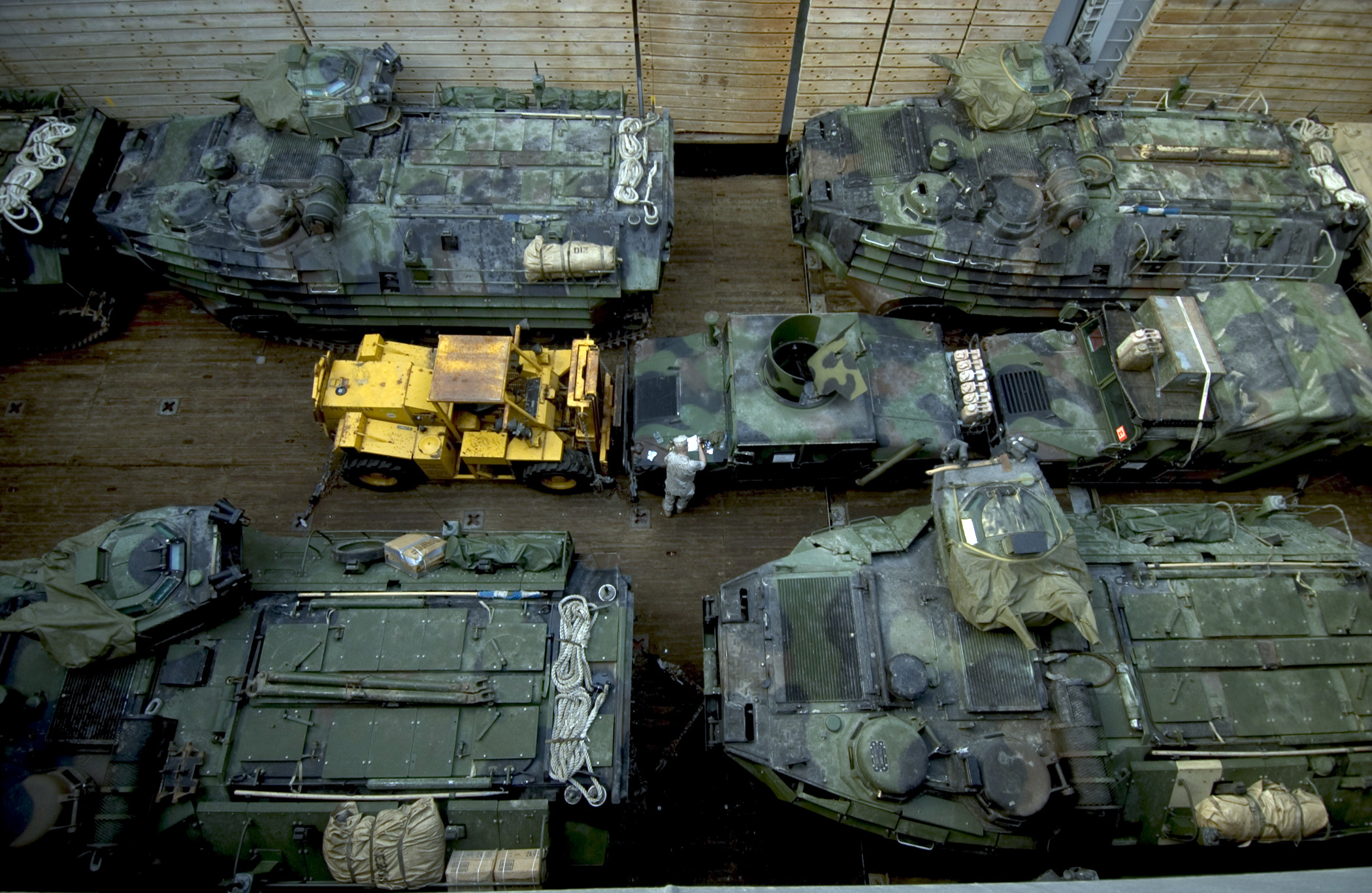 Gulf of Oman (April 22, 2005) - A lone Marine works among Marine Corps vehicles in the well deck aboard the amphibious dock landing ship USS Rushmore (LSD 47). Rushmore is currently on her way home after conducting operations in support of Operation Iraqi Freedom (OIF). U.S. Navy photo by Photographer's Mate 1st Class Aaron Ansarov (RELEASED)